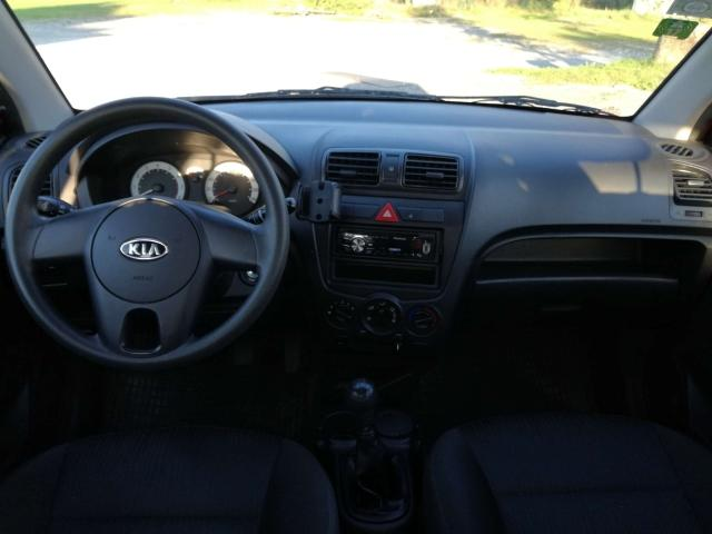 Interior of a KIA Picanto 1.0 2011